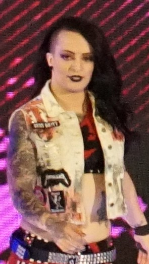 Liv Morgan, Ruby Riott, and Sarah Morgan on SmackDown in April 2018.